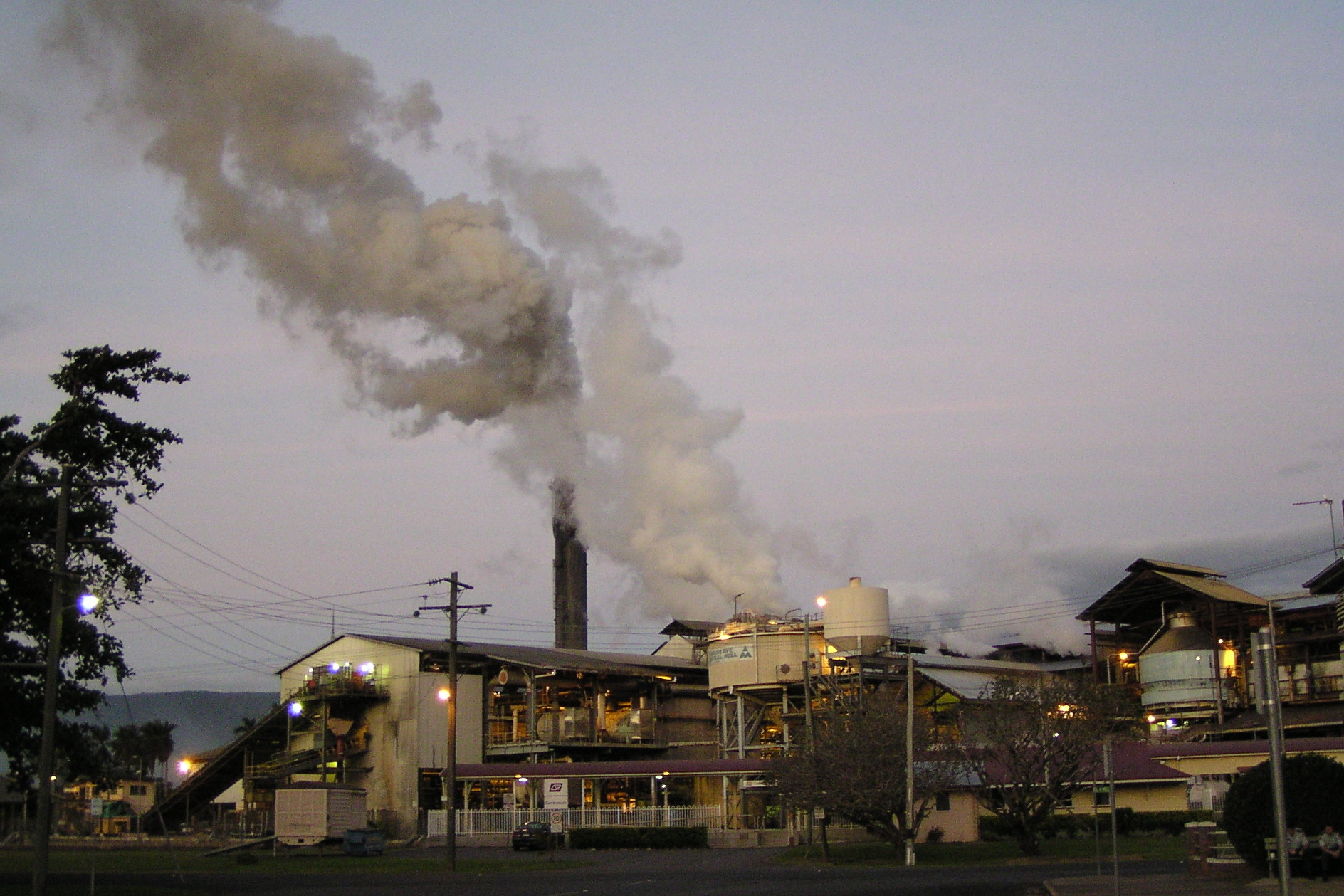 Mulgrave Central Mill at Gordonvale taken from near the Post Office at dusk. In front of the Mill is Gordonvale Railway Station.